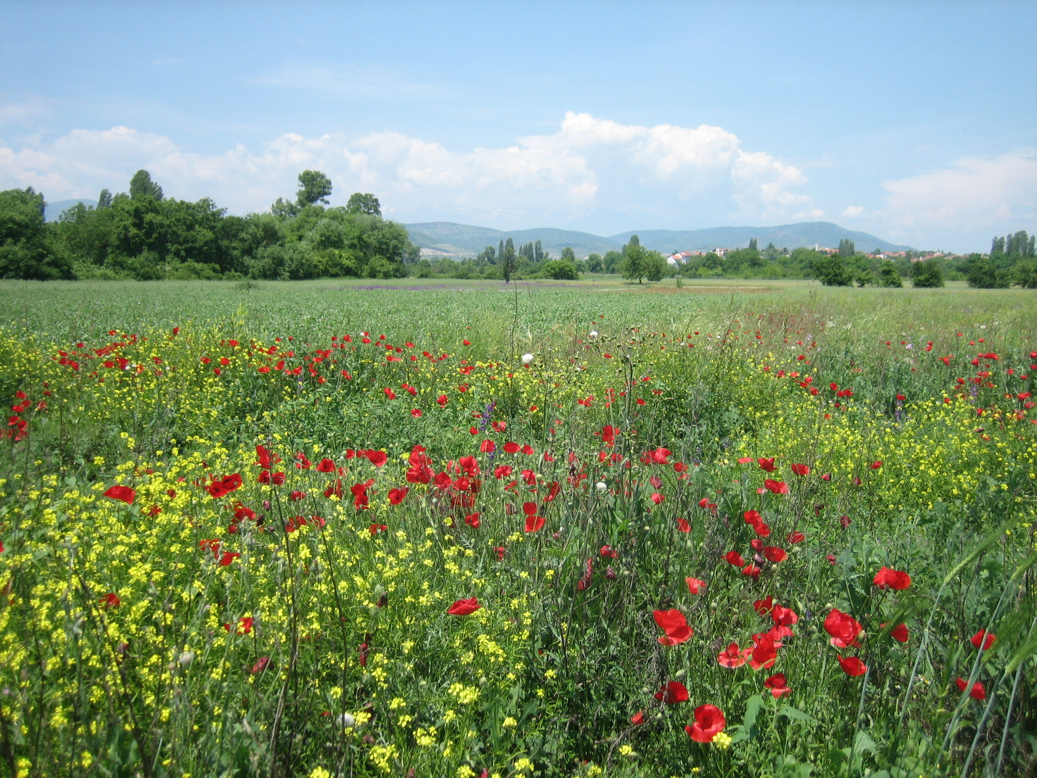 Wild poppy fields are scattered throughout the neighborhood. The village, Bardovci, about 3 kilometers northwest of downtown Skopje, is famous for them.